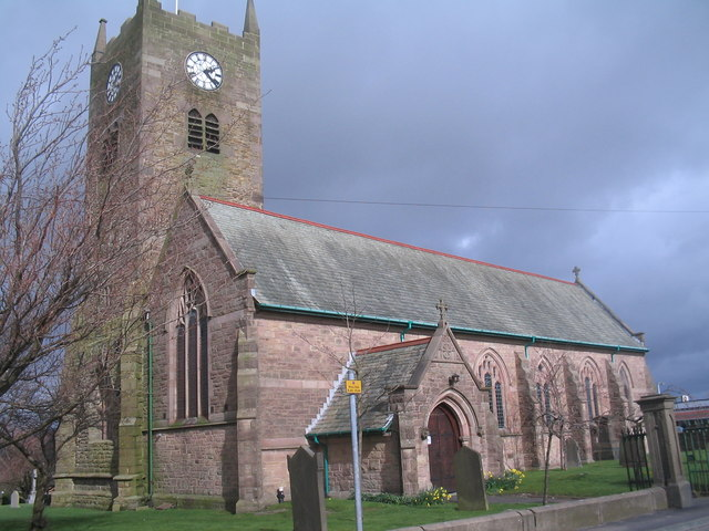 St Katharine's parish church, Blackrod, Greater Manchester, seen from the southwest